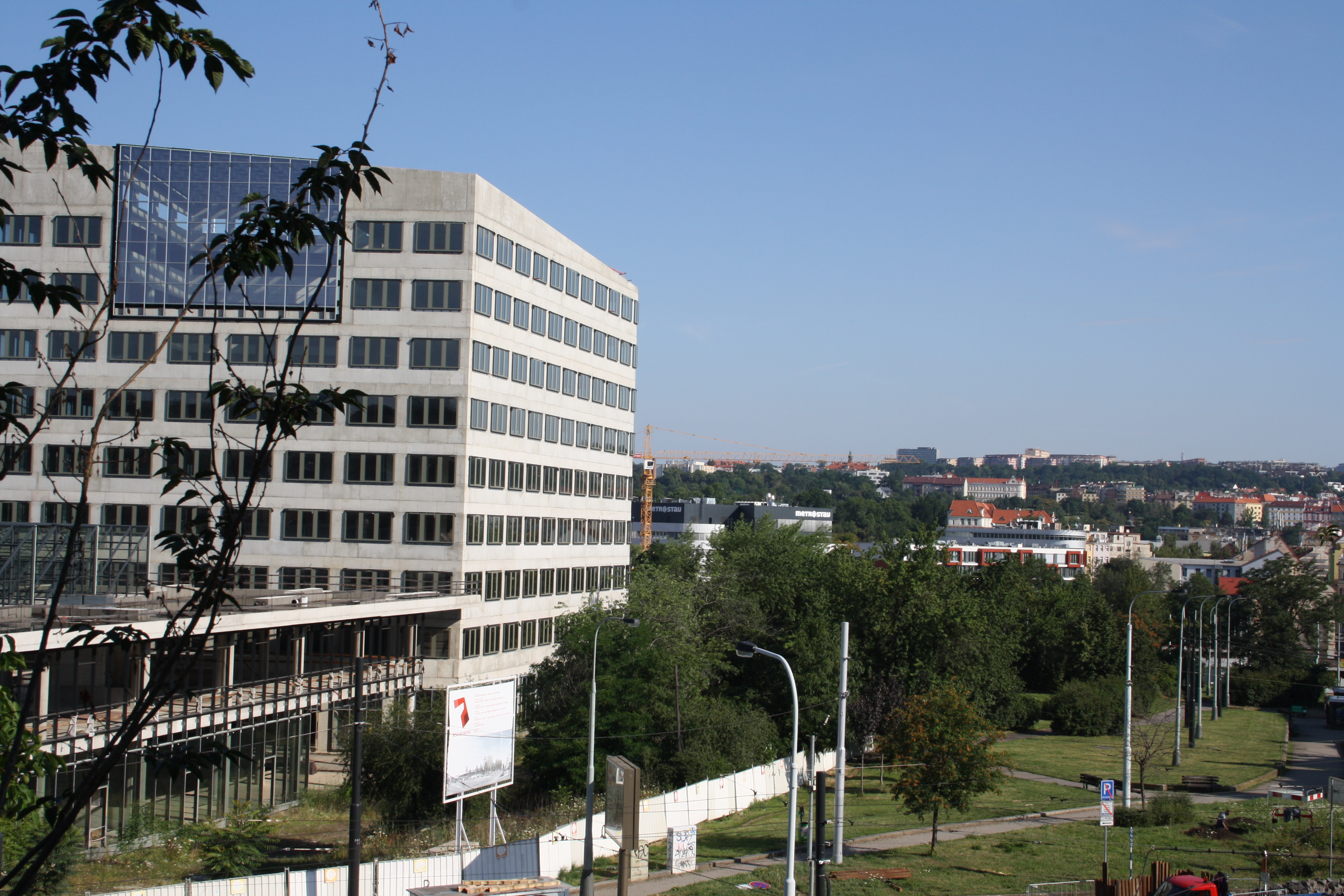 Nová Palmovka building from south, Liben, Prague, Czech republic